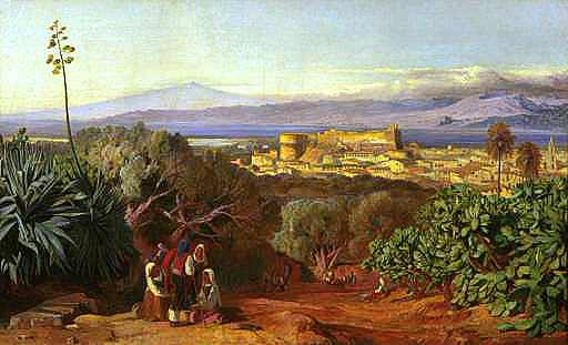 Illustration of Reggio Calabria.